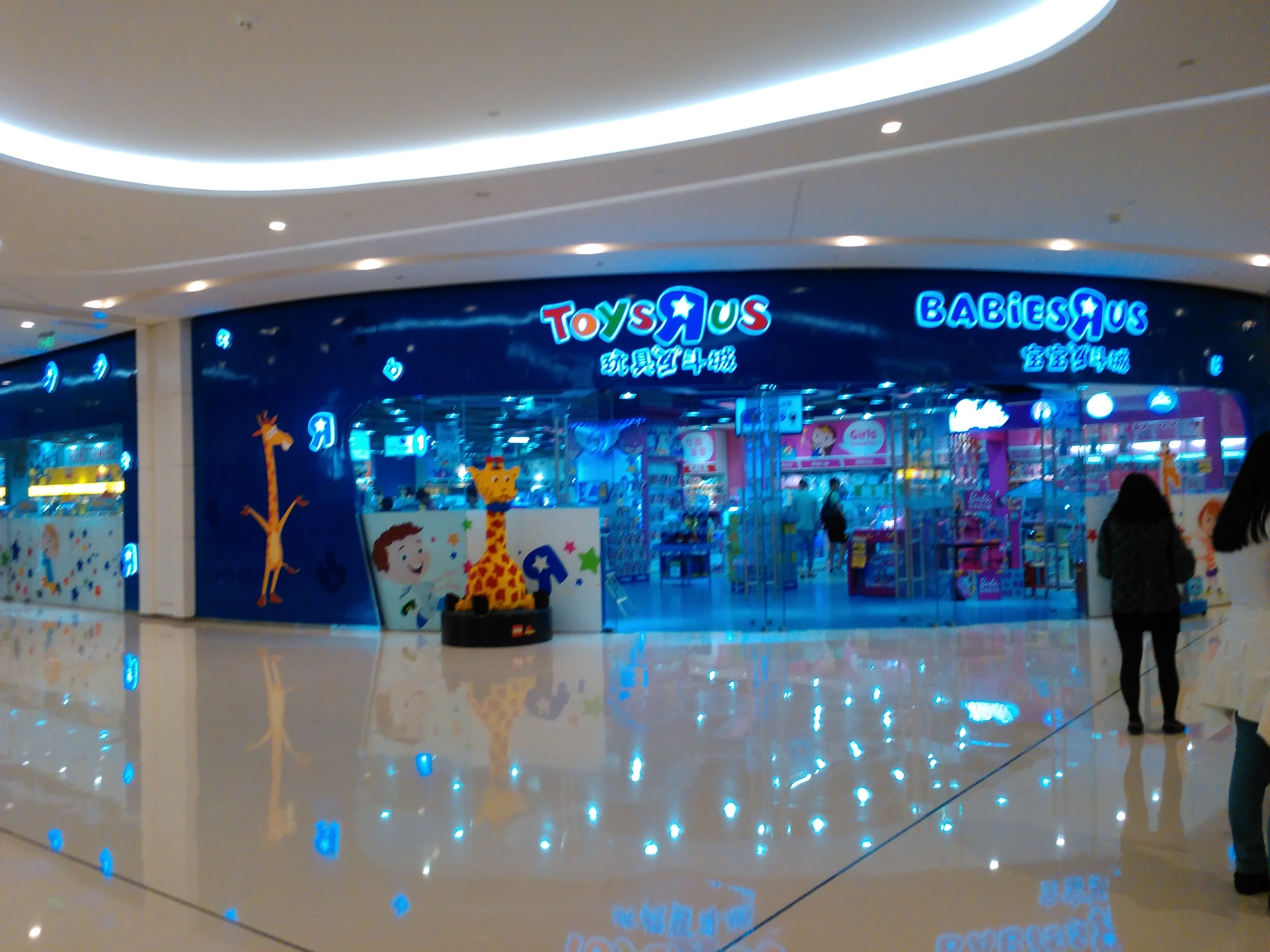 Toys R Us and Babies R Us in Chengdu